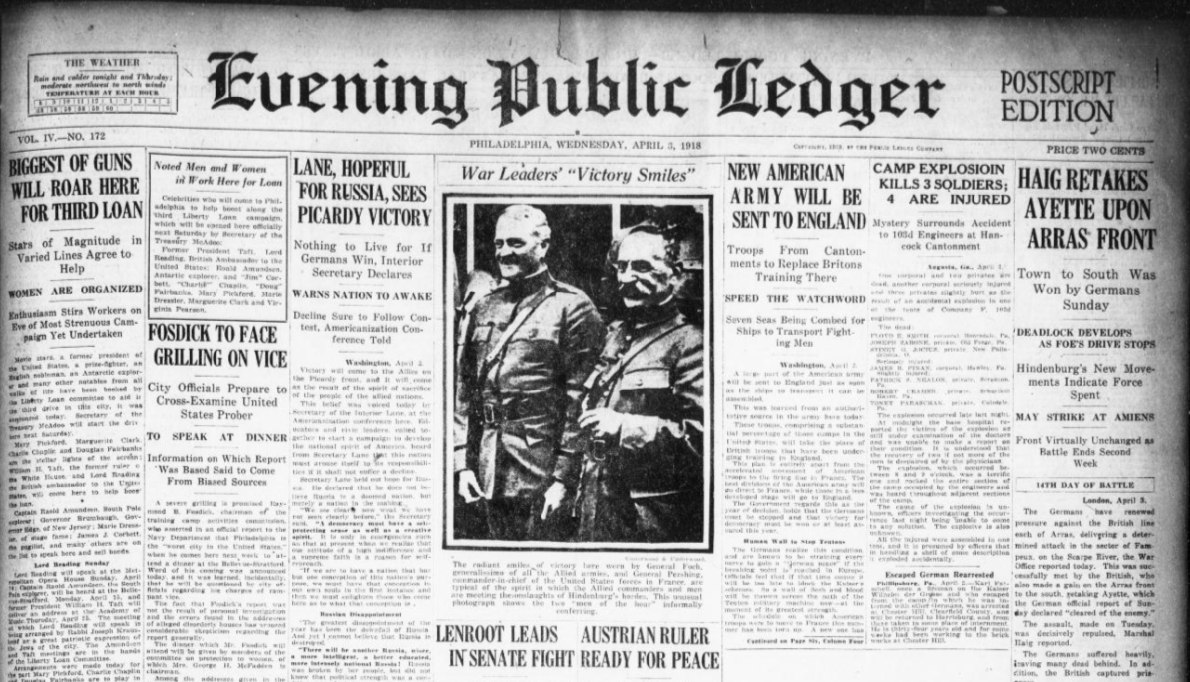 Evening public ledger., April 03, 1918, Postscript Edition